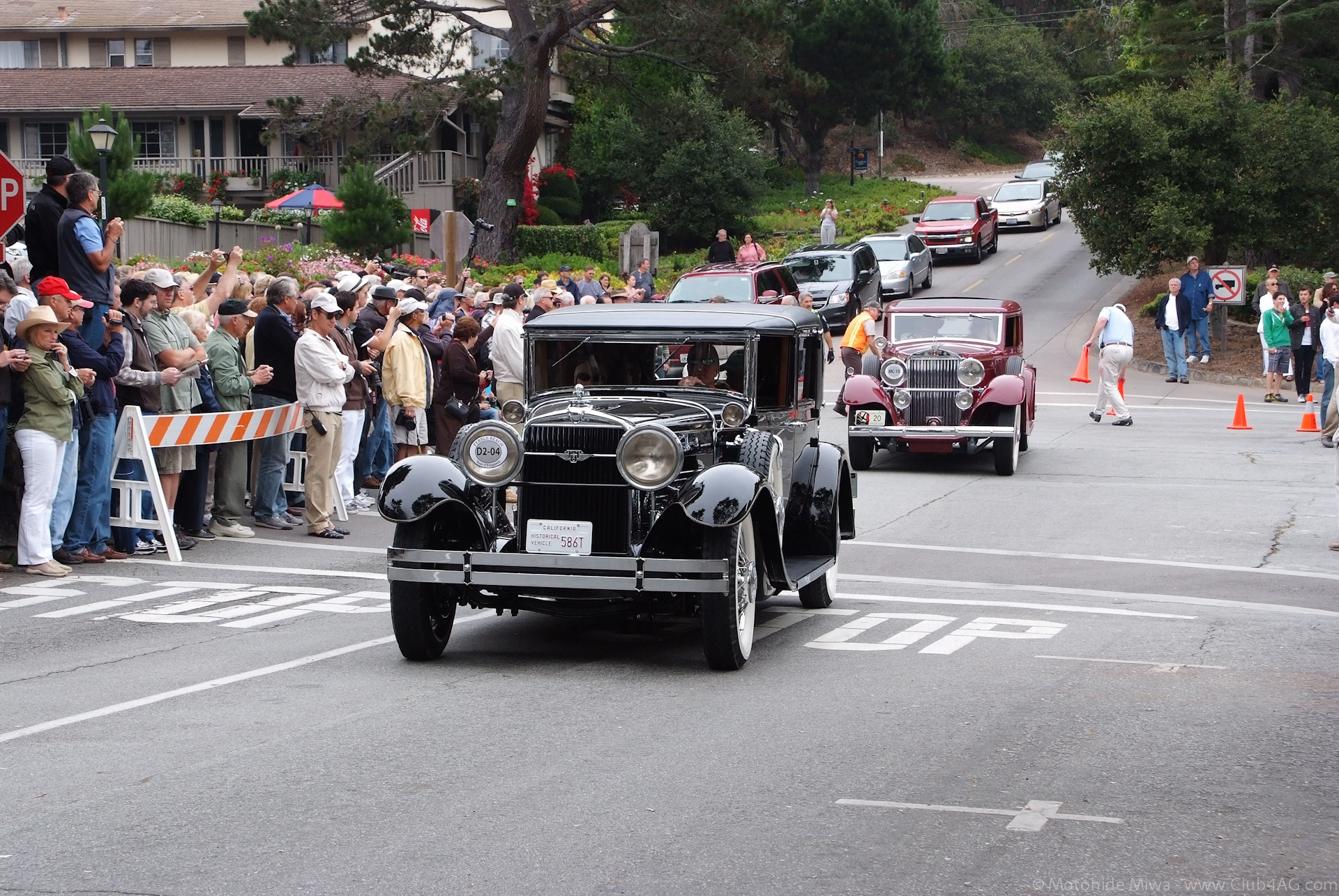 1929 Stutz Model M LeBaron town car Monterey_Historics_2011-10-127